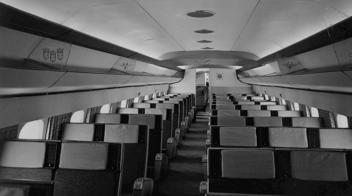 Photo of the interior of a Douglas DC-8 passenger aircraft.